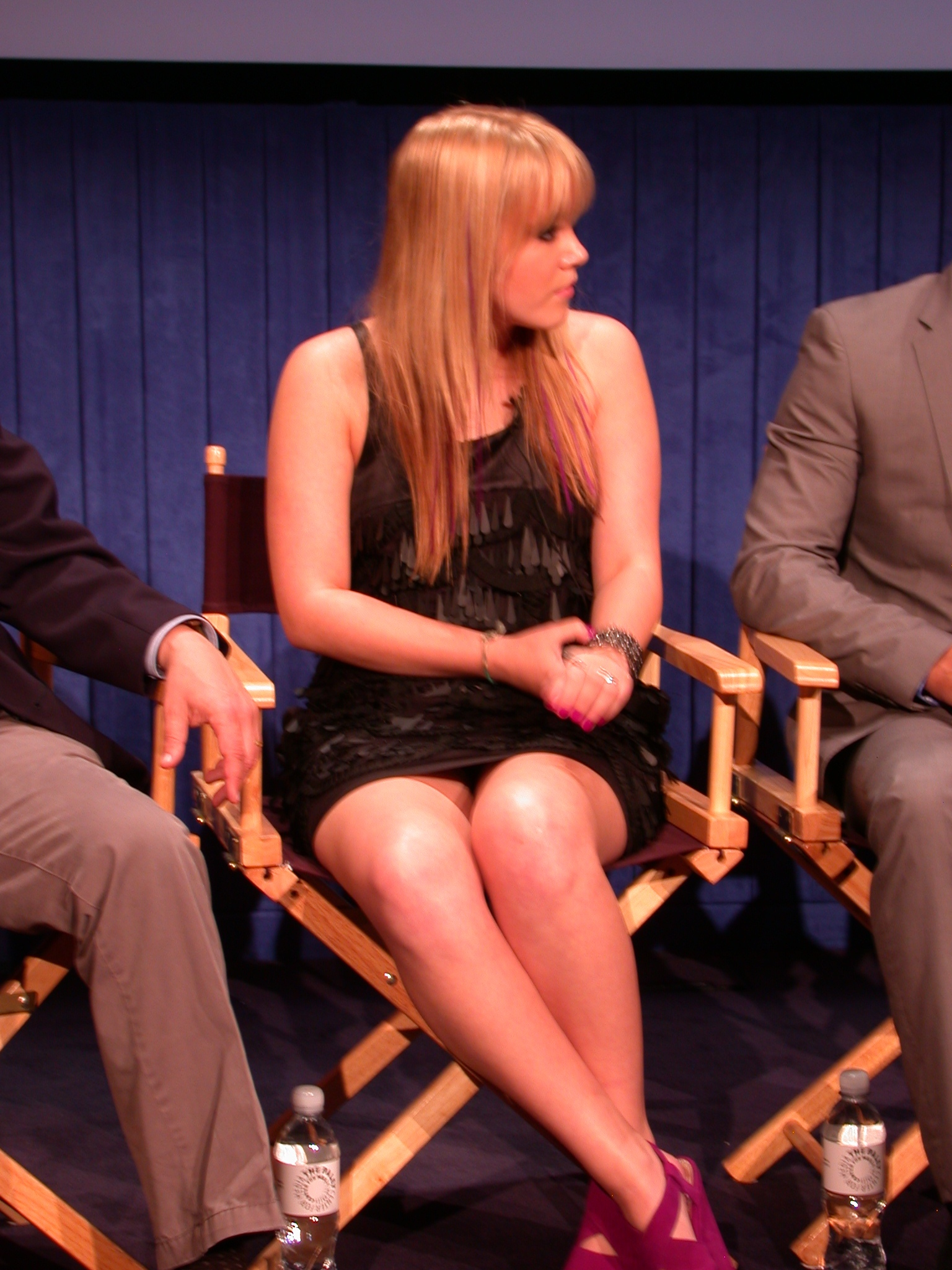 Star of Melissa & Joey, Taylor Spreitler, at the Paley Center for Media